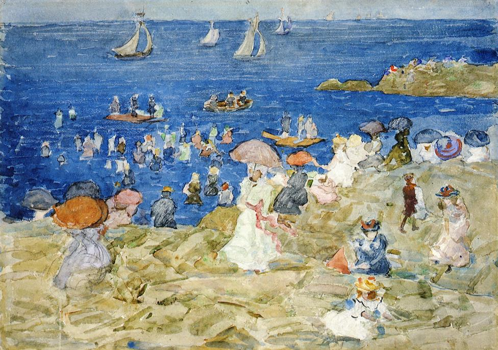 "New England Beach Scene," watercolor, by the Providence, Rhode Island, artist Edward Chalmers Leavitt. Private collection.